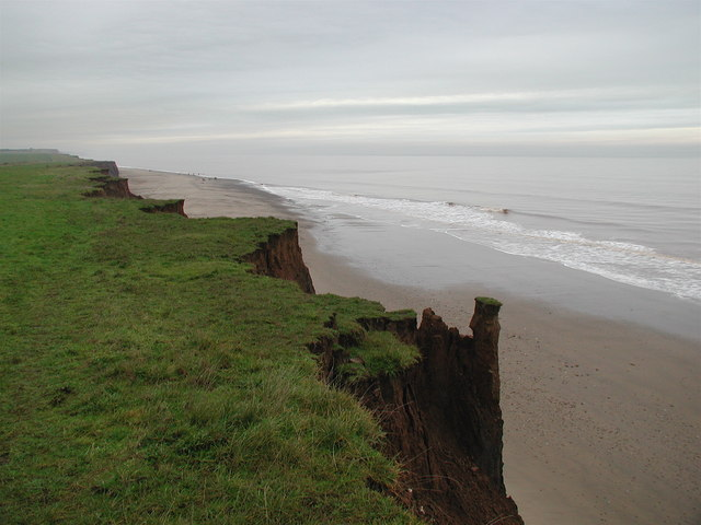 Tunstall Cliffs, Tunstall, East Riding of Yorkshire, England.Just north of the WW2 pillbox by the bridleway between Seaside Lane and Pasture Lane. Although the Ordnance Survey map for this area says 'revised for selected change 2006' much of the cliff edge is a good 50 metres inland from where it's plotted on the map.